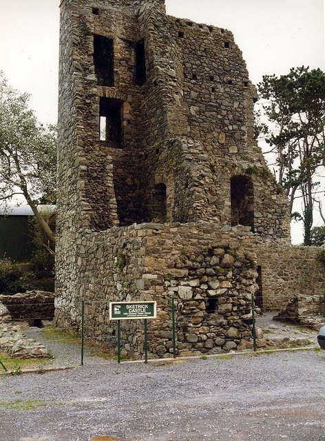 Sketrick Castle a 15th century Tower House, guarding the causeway to Sketrick Island, Northern Ireland.